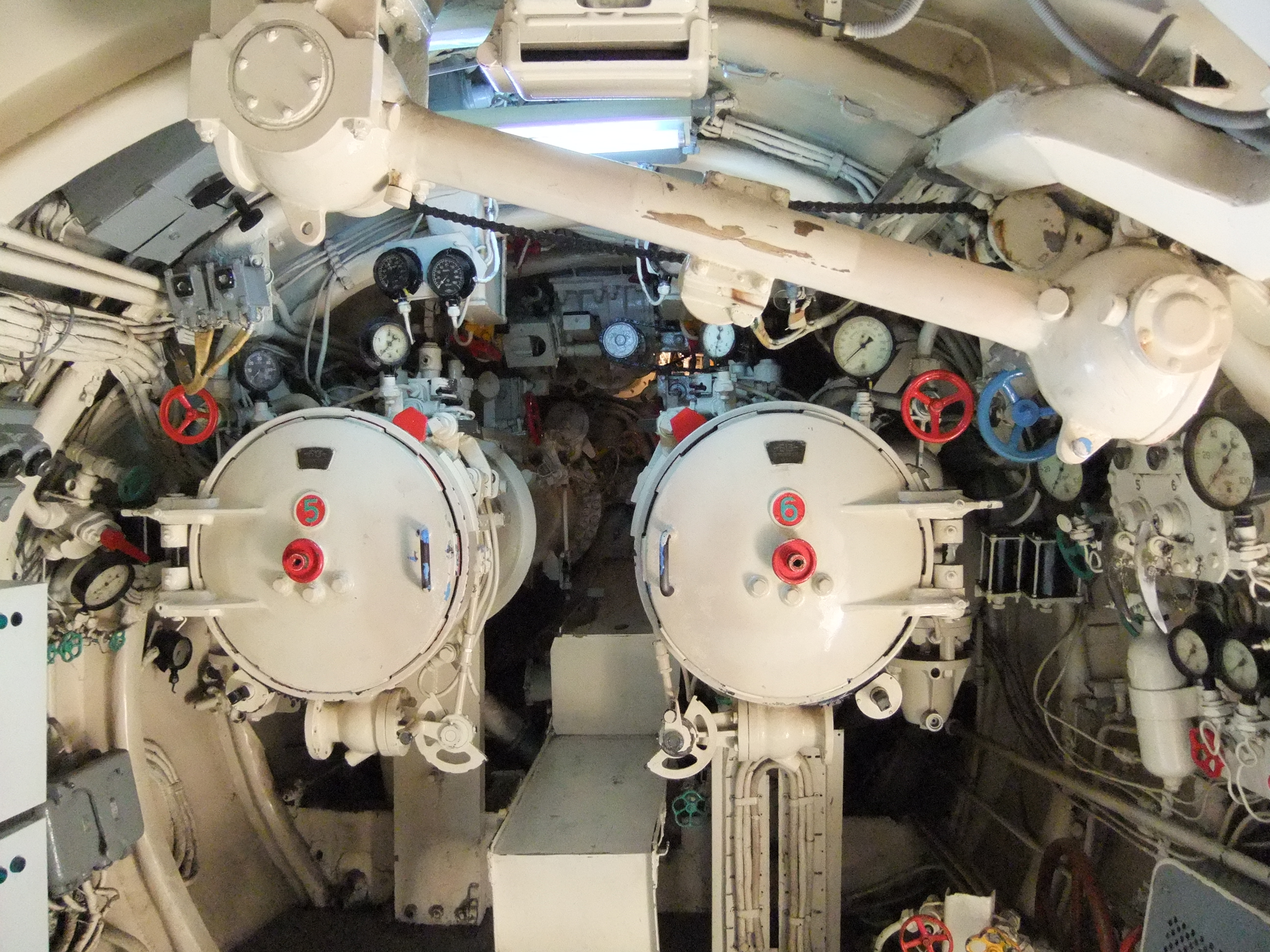 Submarine Monument (KRI Pasopati), Surabaya, Indonesia